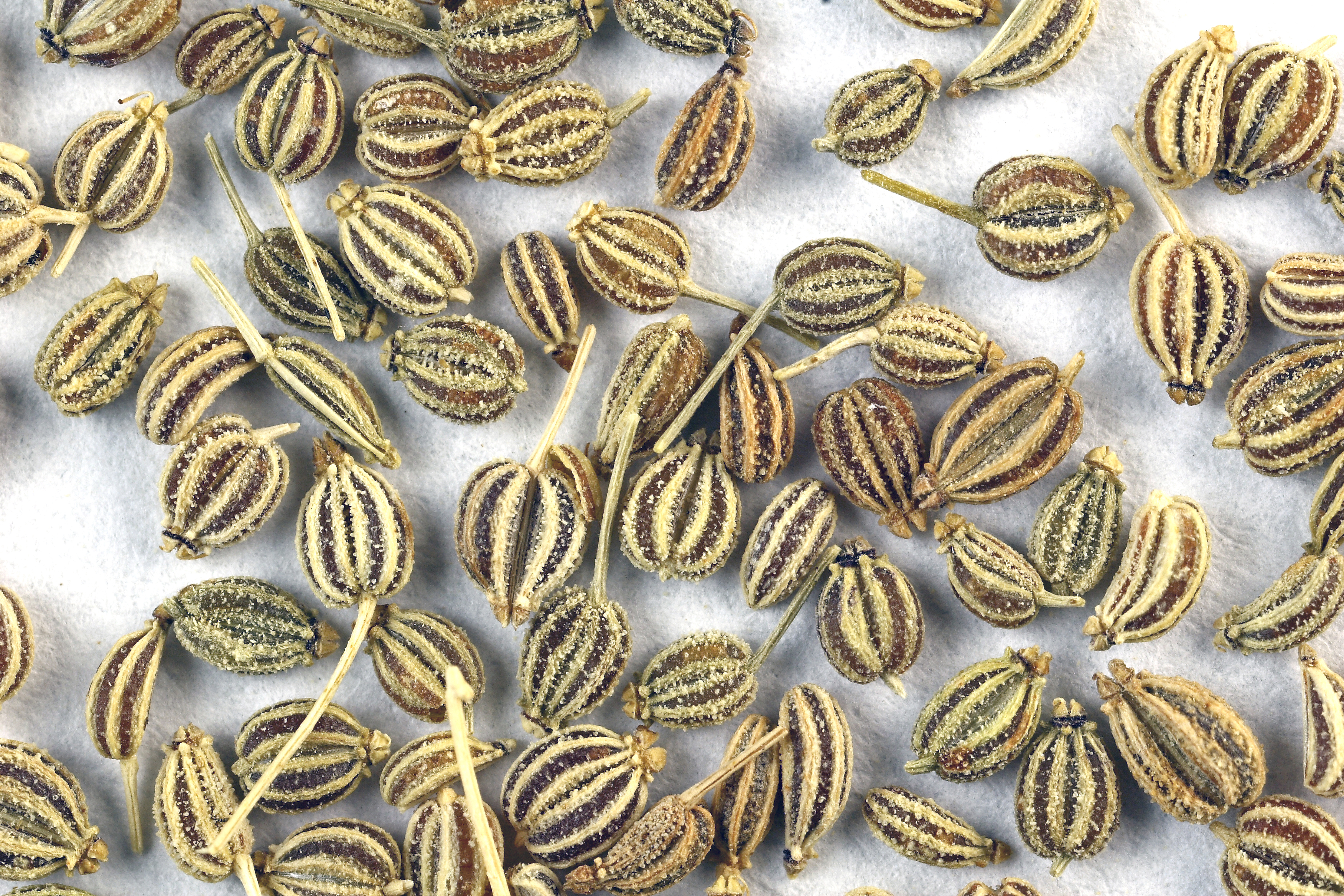 Ajowan